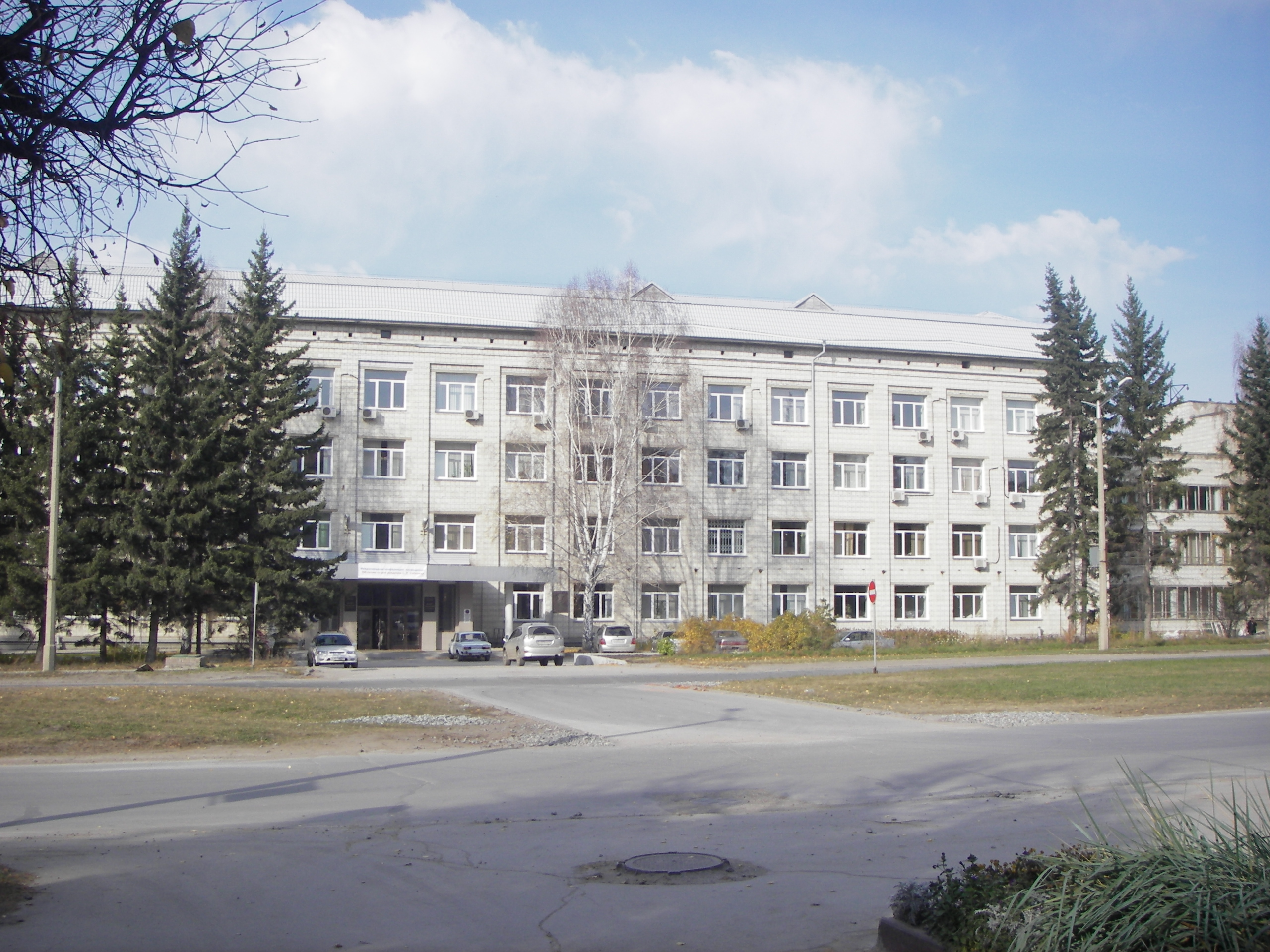 Institute of Mathematics in Novosibirsk, Russia